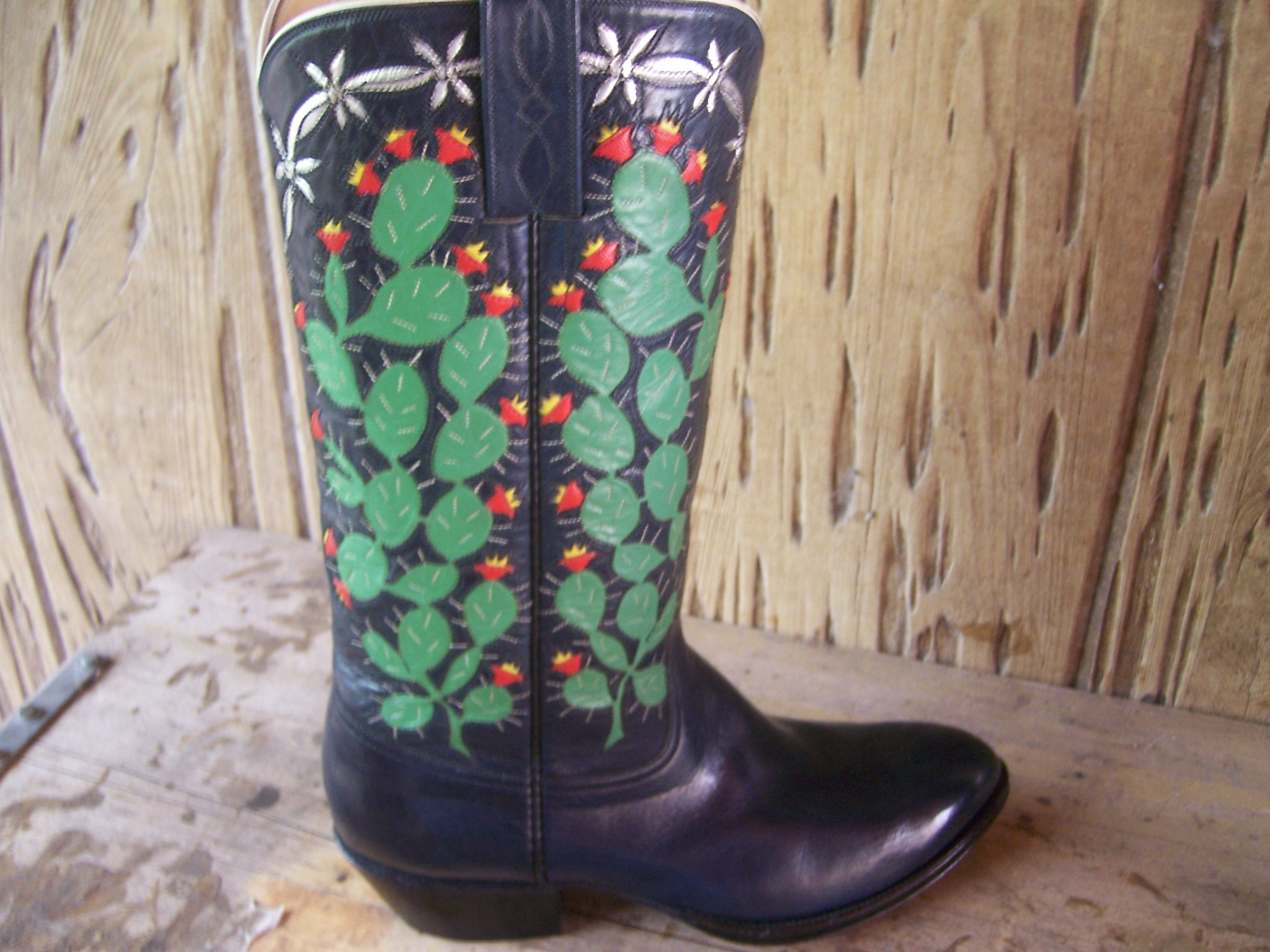 Cactus design on leather cowboy boots